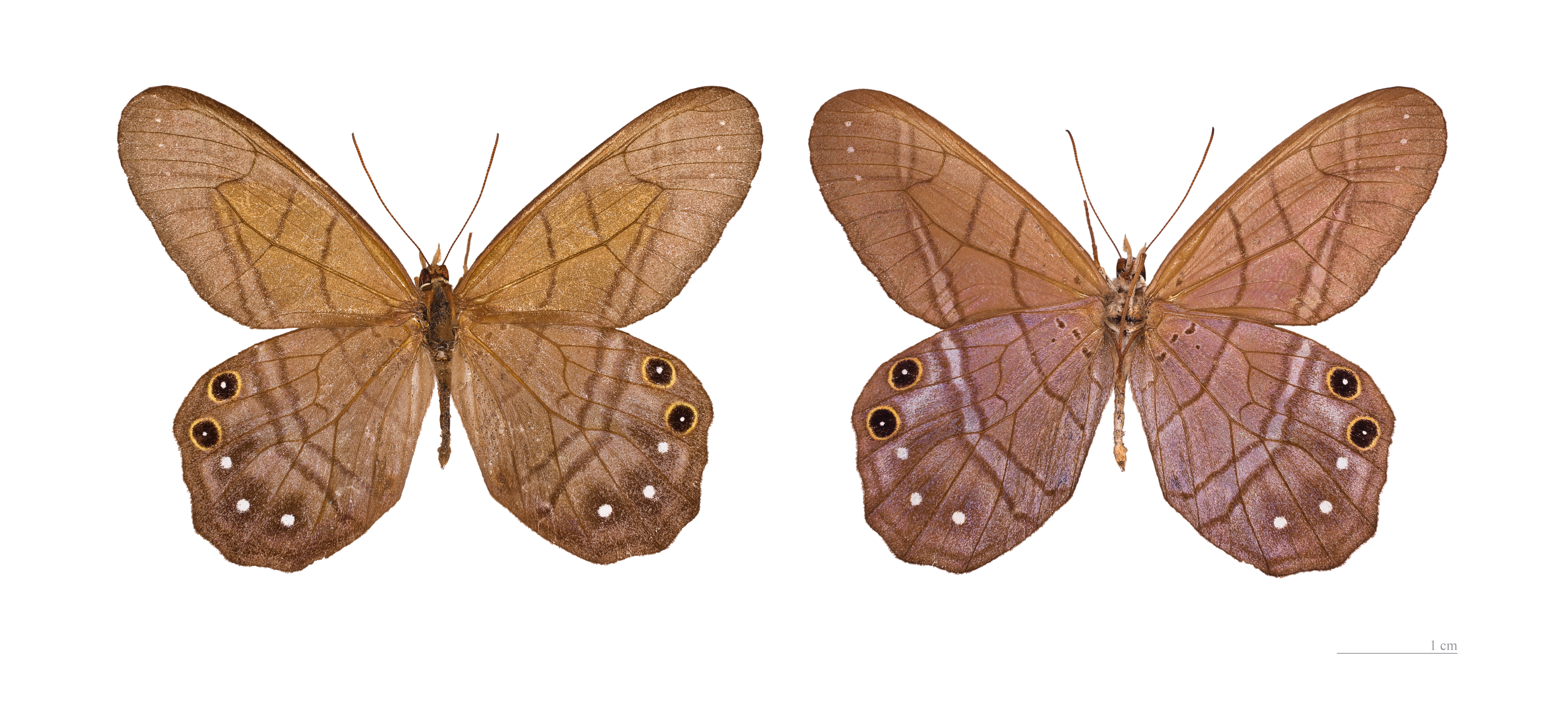 Two views of same specimen Locality : Kourou, Mont des singes, French Guiana